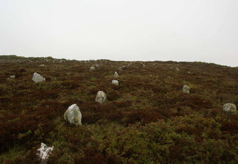 Hill o' Many Stanes, Mid Clyth, Caithness, Scotland